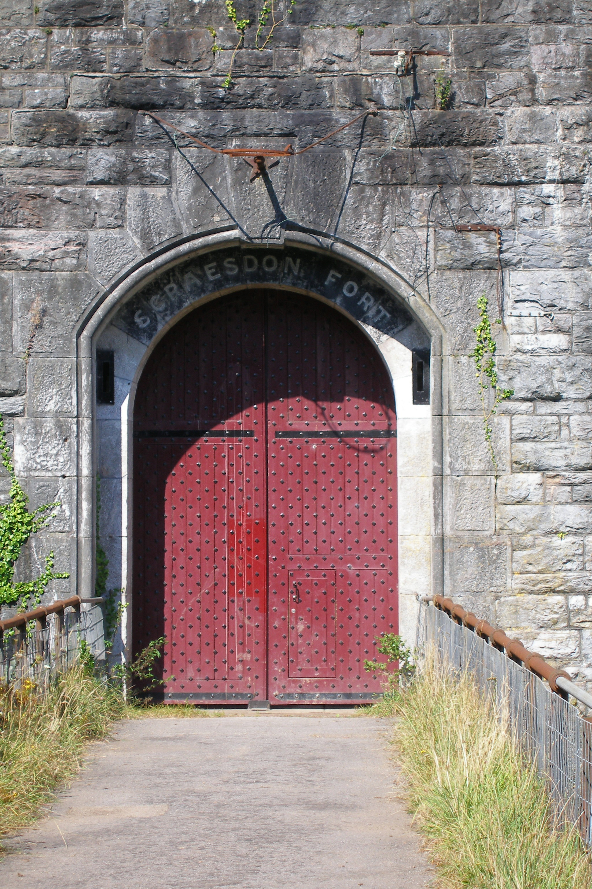 Scraesdon Fort 6th September 2007